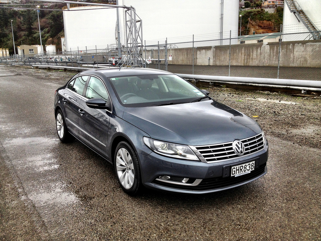 We took our VW CC through the tunnel to Lytellton to take some photos (and also, just quietly, because we really enjoy driving it). Find out more about this car and Miles Continental on our Facebook Page